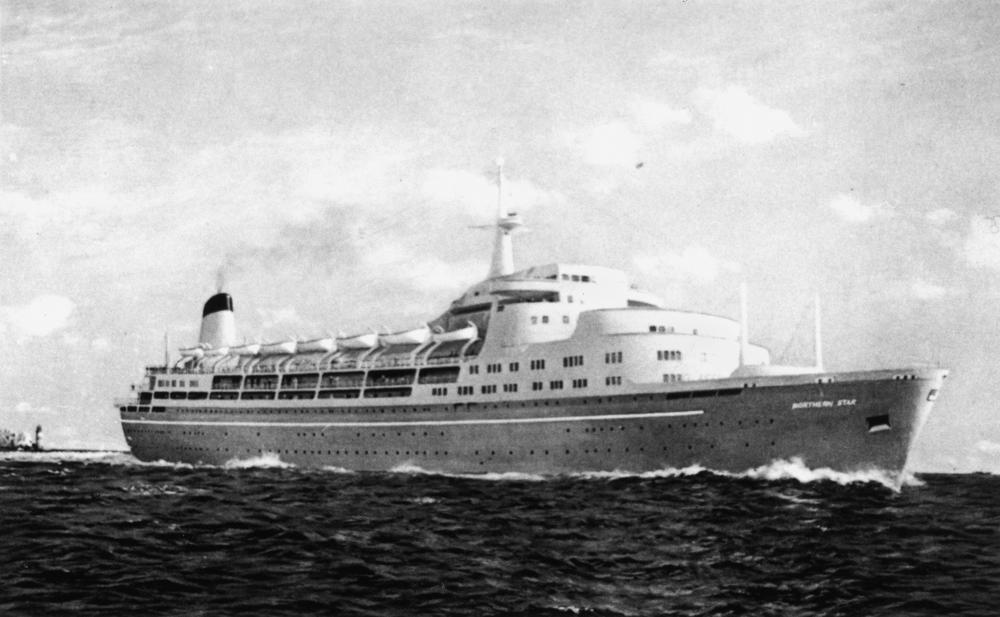 Northern Star (ship)